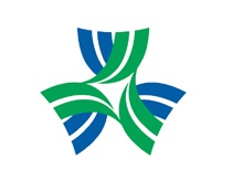 Flag of Yurihama Tottori